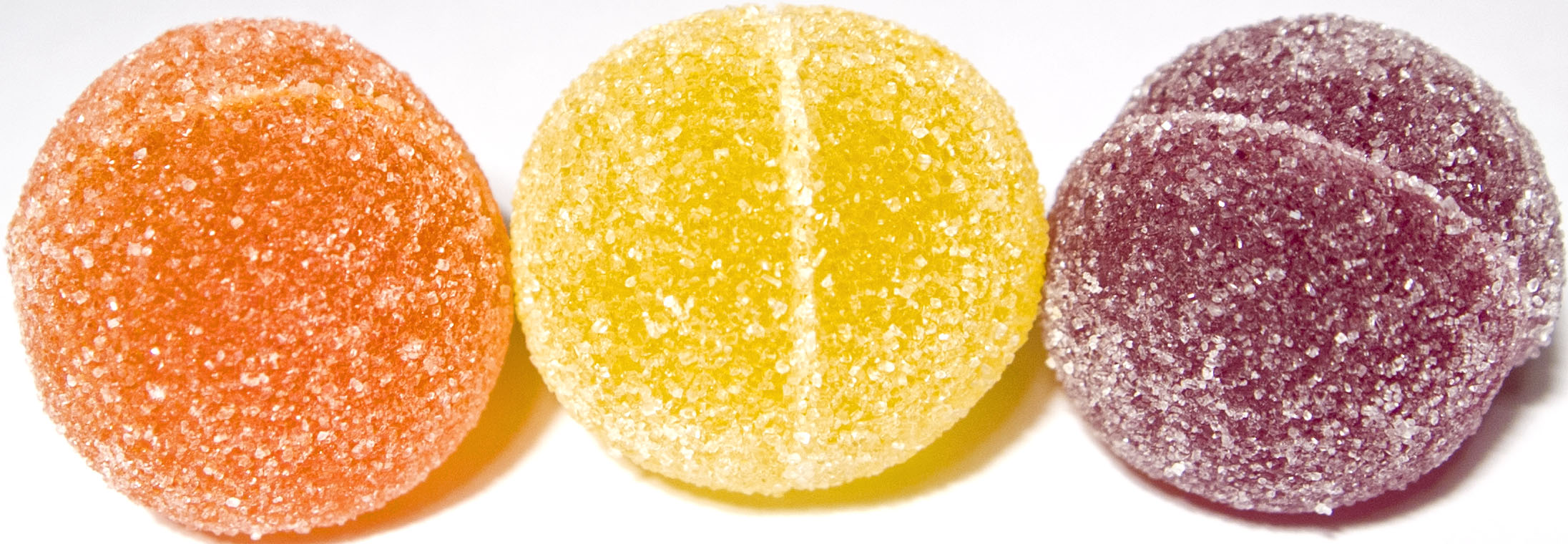 An orange, an yellow and a violet marmalade ball.